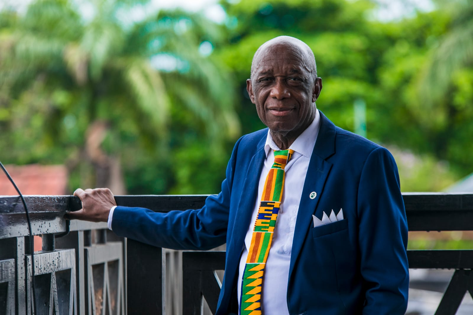 A portrait of Dr, Thomas Mensah Ghanaian-American chemical engineer and inventor.